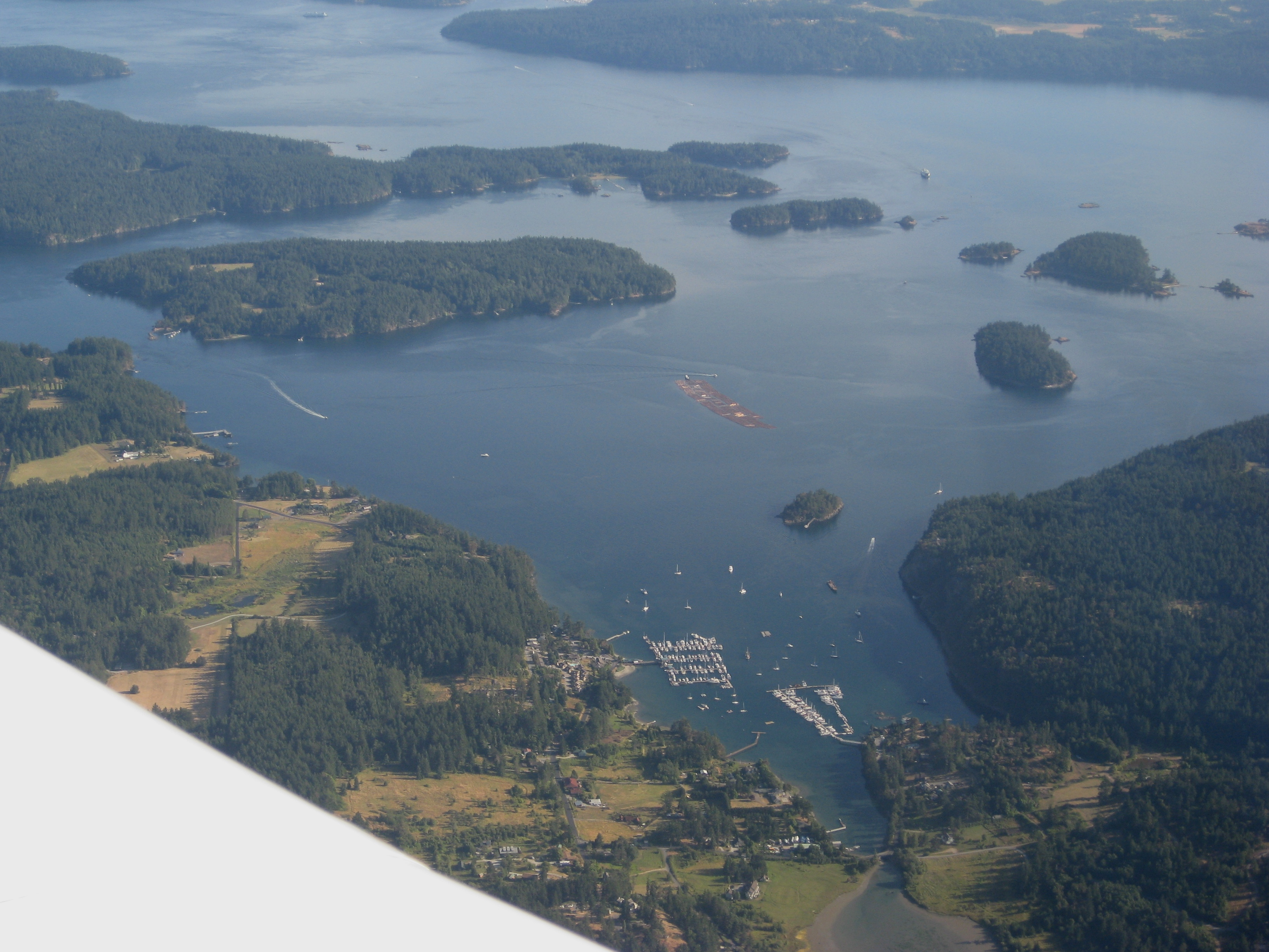 Friday Harbor, Orcas Island, Washington